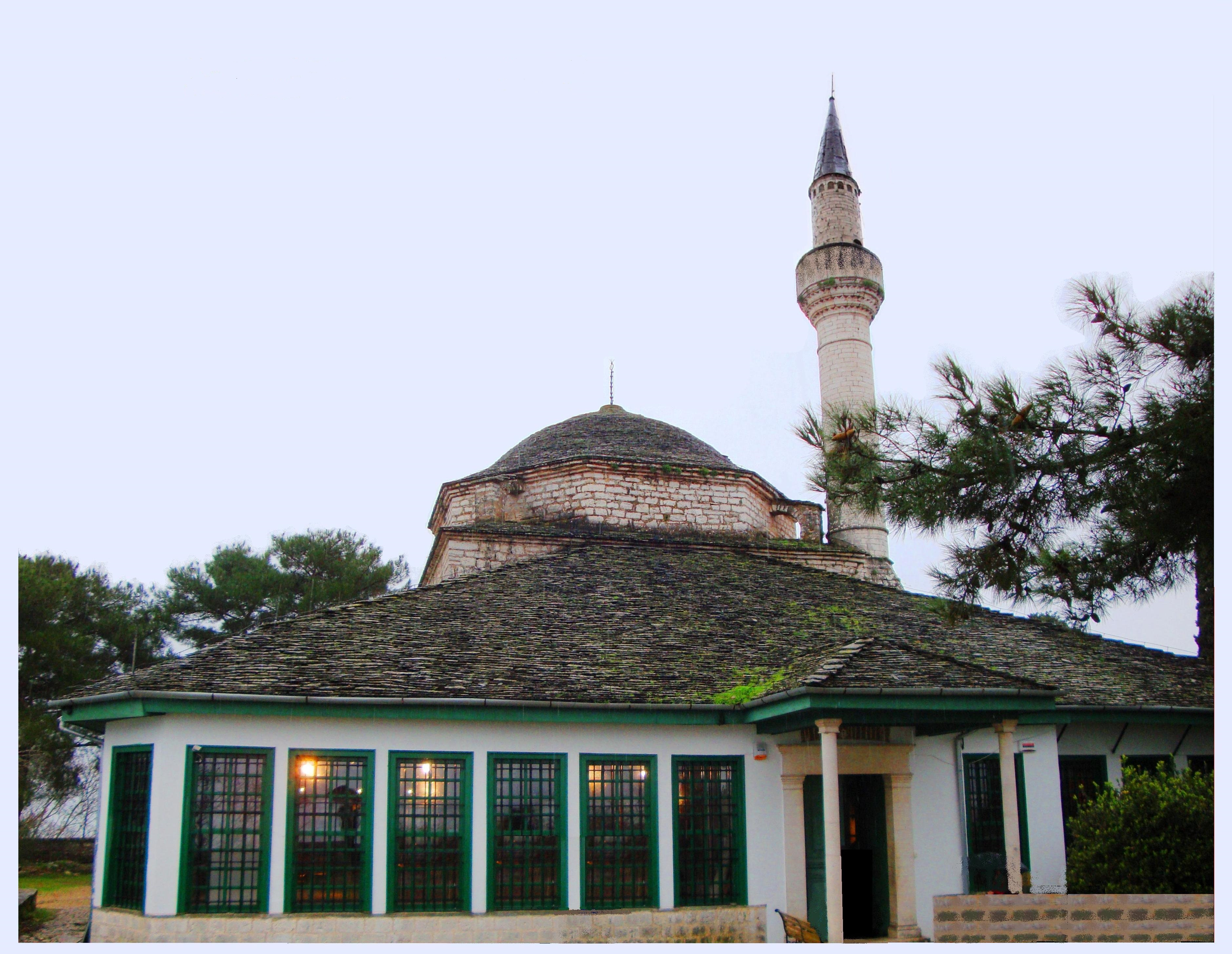 Aslan Pasha Ottoman mosque in Ioannina, Greece